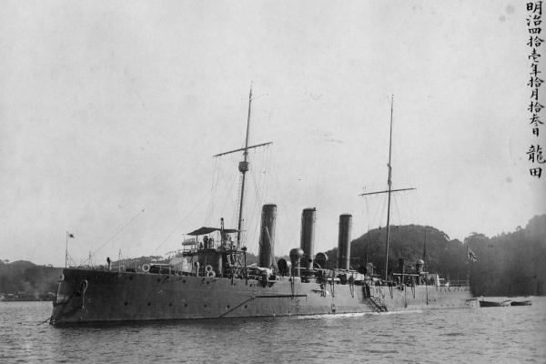 IJN despatch vessel TATUSTA at Yokosuka Naval Base.